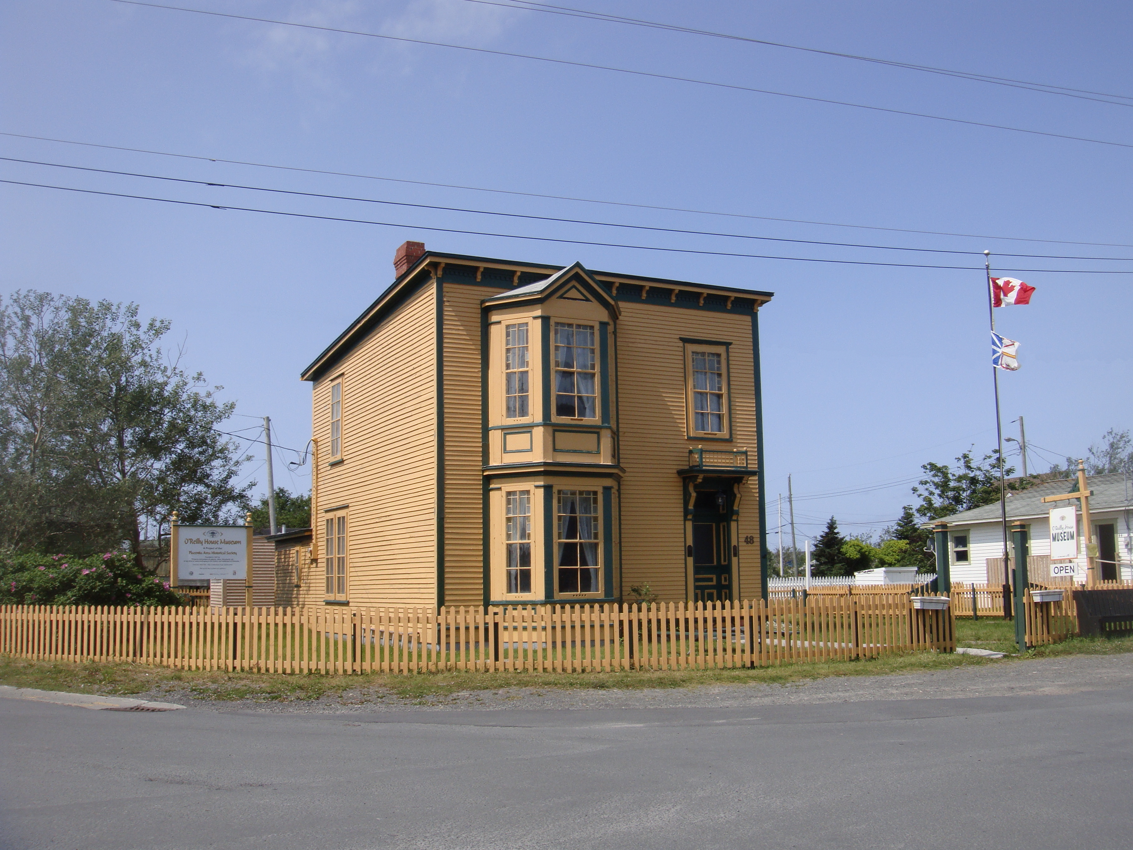 Photograph of the O'Reilly House Museum, the former home of Magistrate William O'Reilly and subsequent magistrates residing in Placentia.